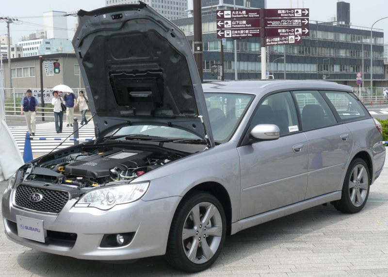 Subaru Legacy diesel.